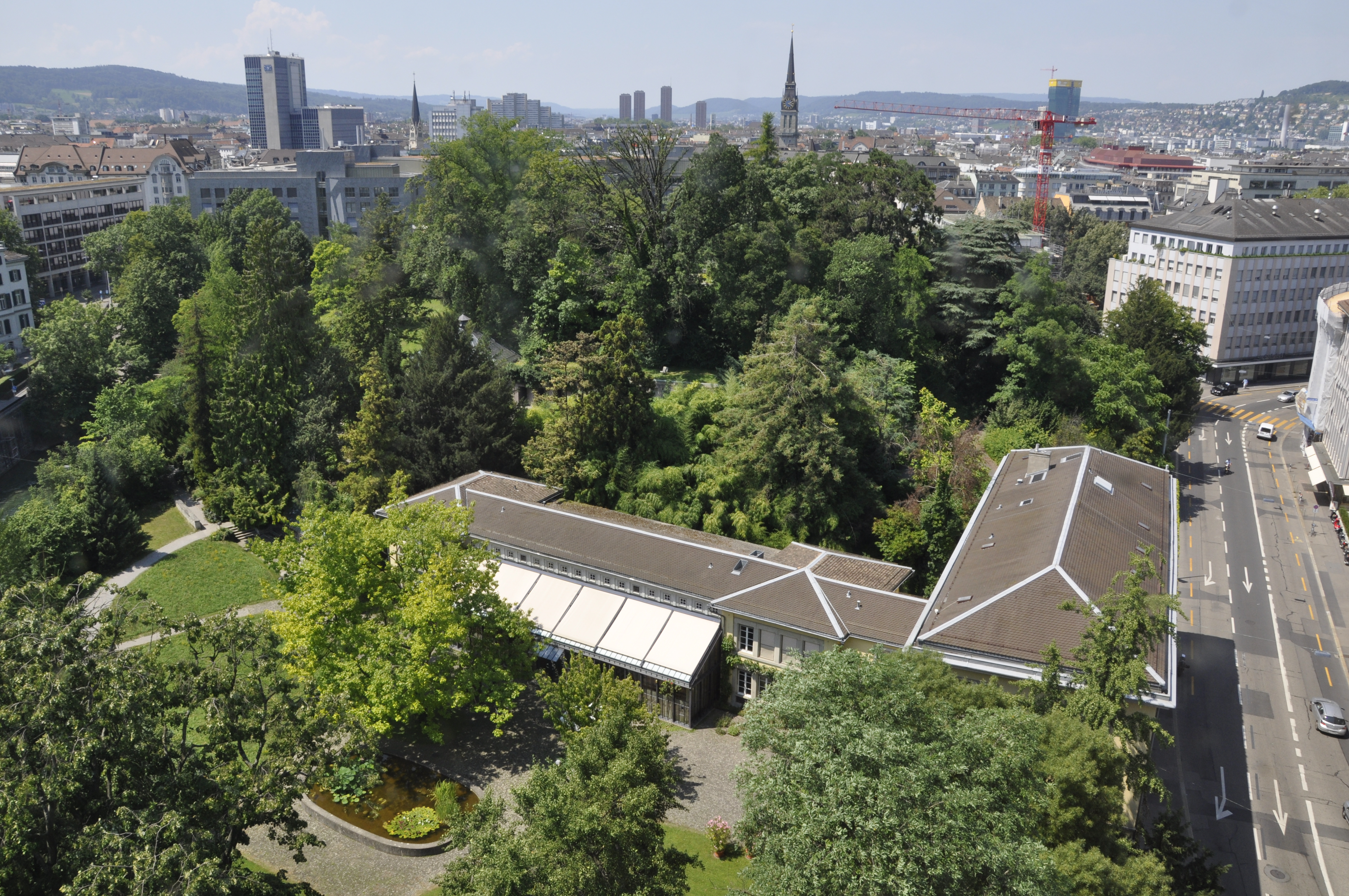 Ethnographic Museum of the University of Zurich, situated in the Ancient Botanical Gardens